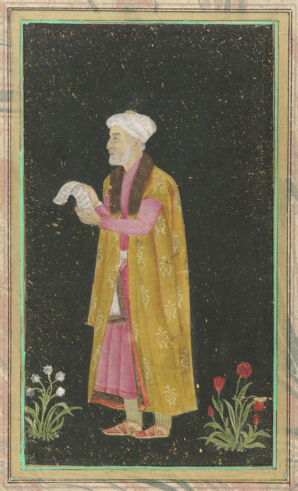 A portrait of Mirza Ghiyas Beg aka 'I'timād-ud-Daulah'. Mughal dynasty, 18th century. Color and gold over gold-sprinkled black ground on paper. Freer Gallery of Art F1907.253